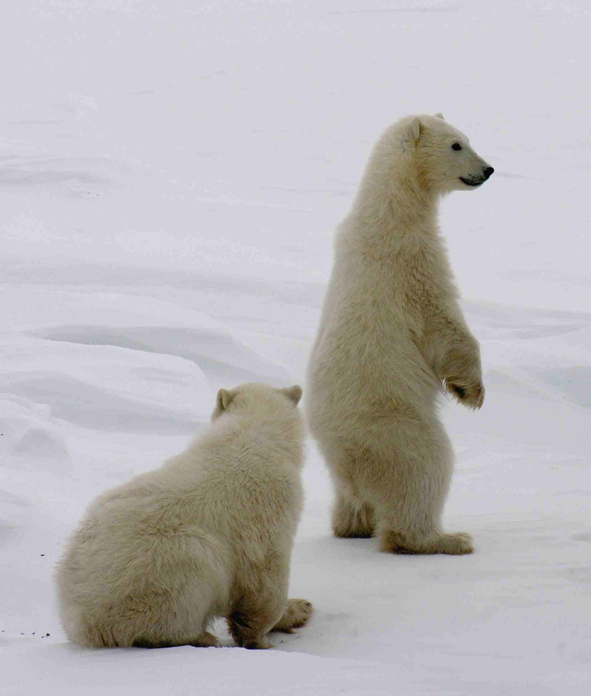 Two polar bear cubs (Wapusk National Park, Manitoba, Canada)